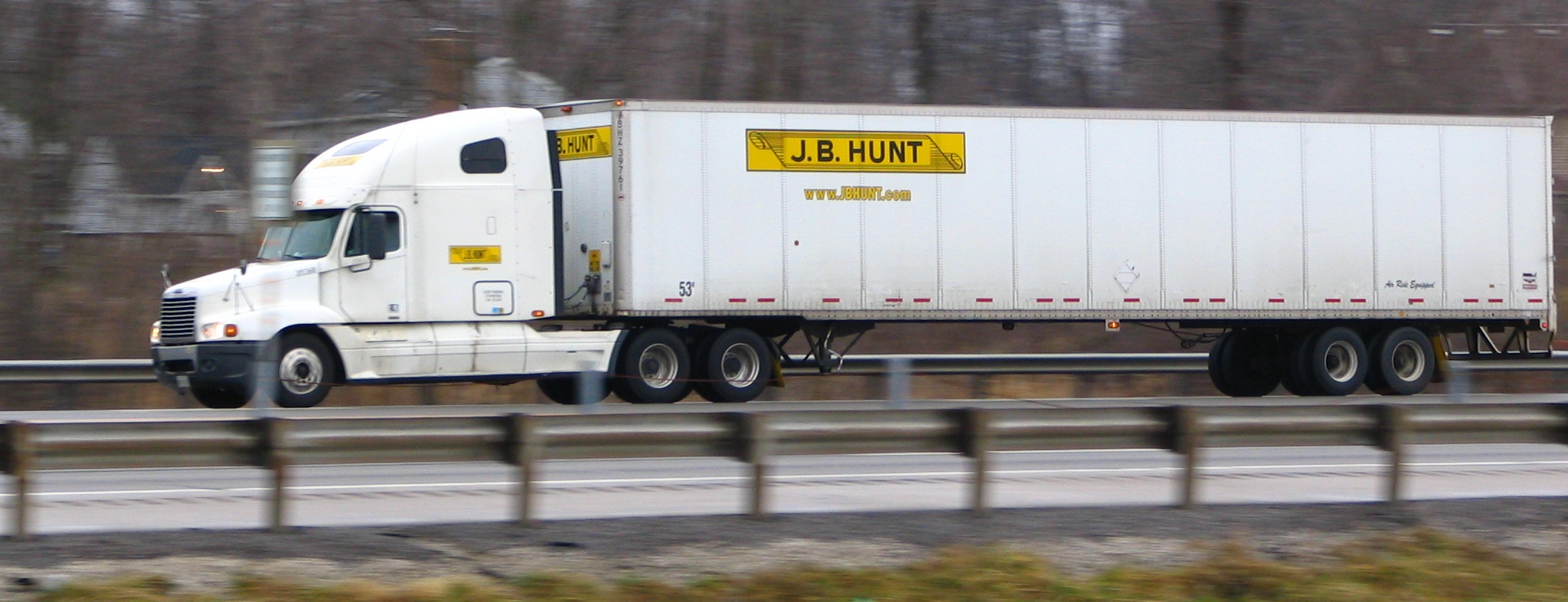 A J.B. Hunt semi-trailer truck photographed on the Ohio Turnpike in Hudson, Ohio